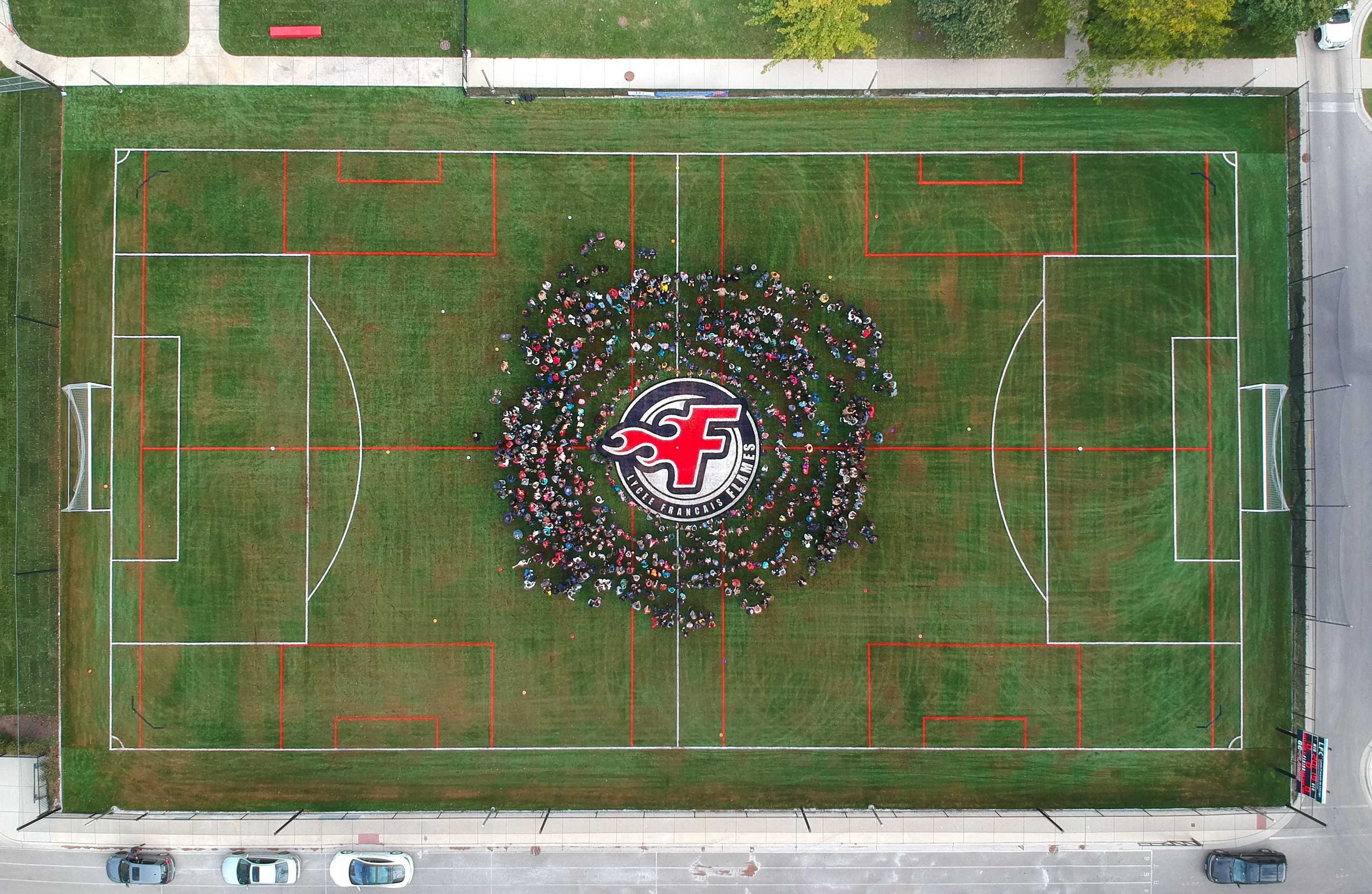 DCIM/100MEDIA/DJI_0075.JPG